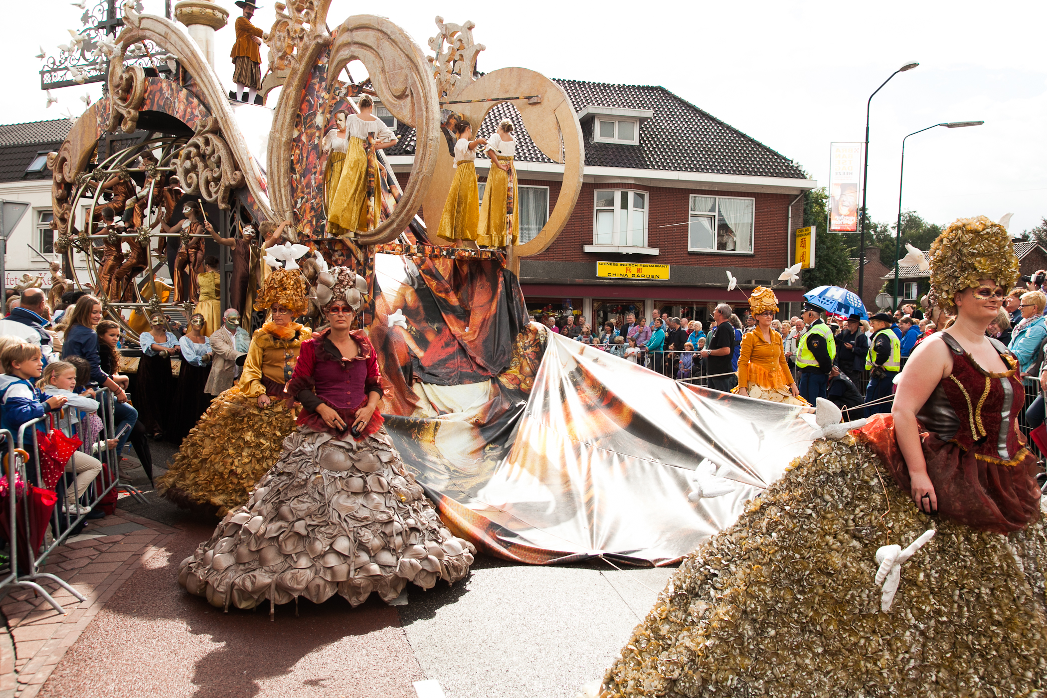 Brabantsedag 2012 - De Laarstukken